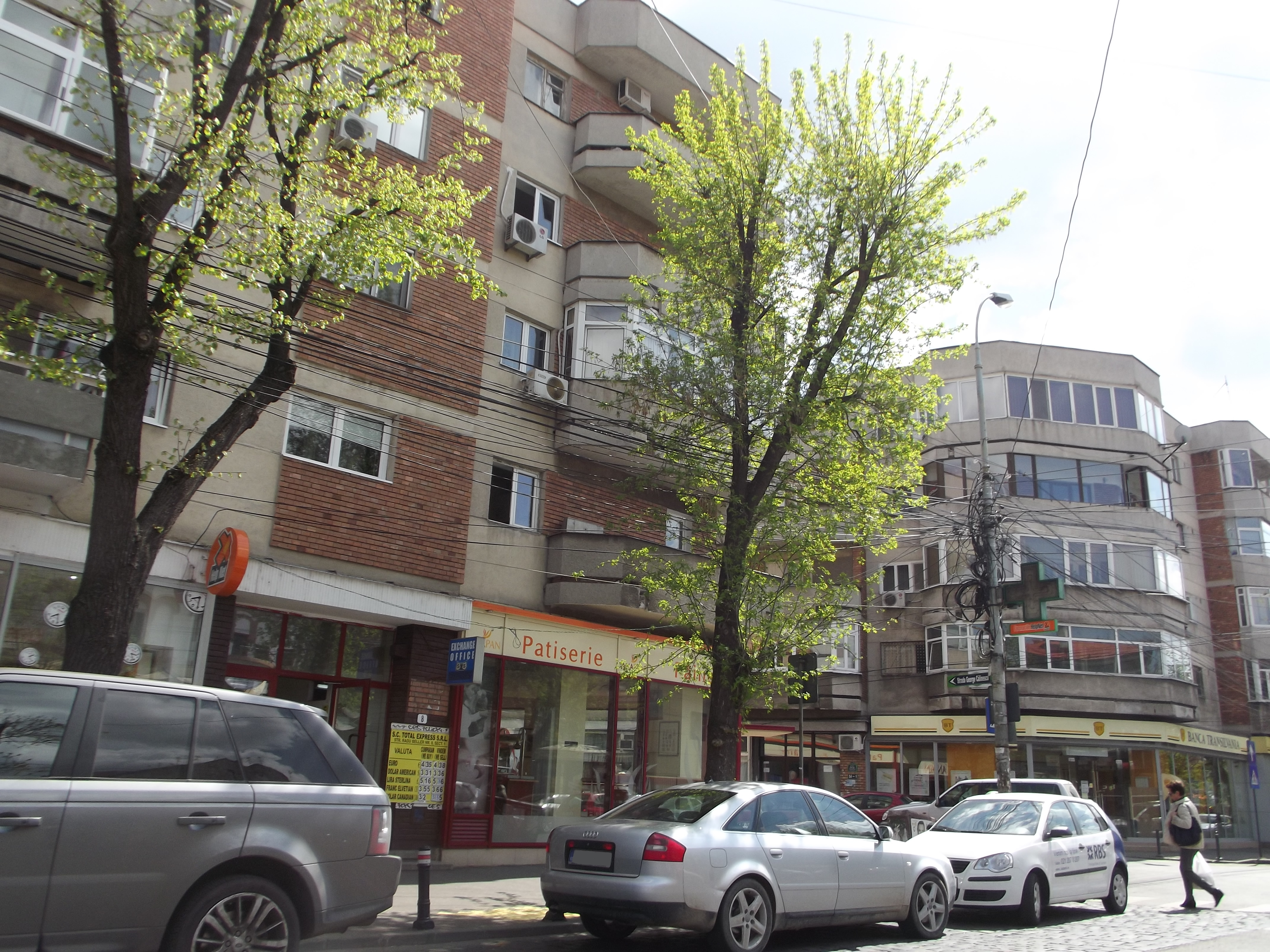 Appartment blocks in Dorobanti quarter of Bucharest